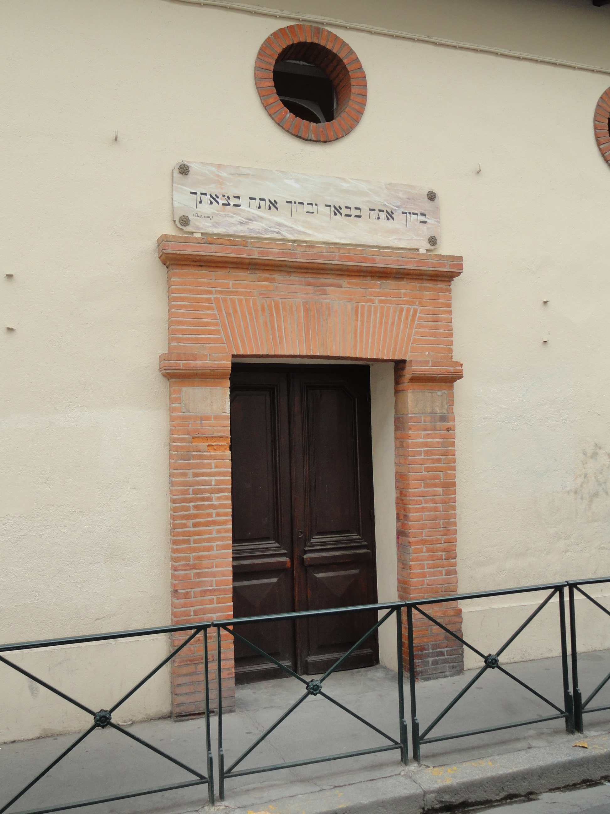 Synagogue Palaprat-Toulouse - France - main entrance